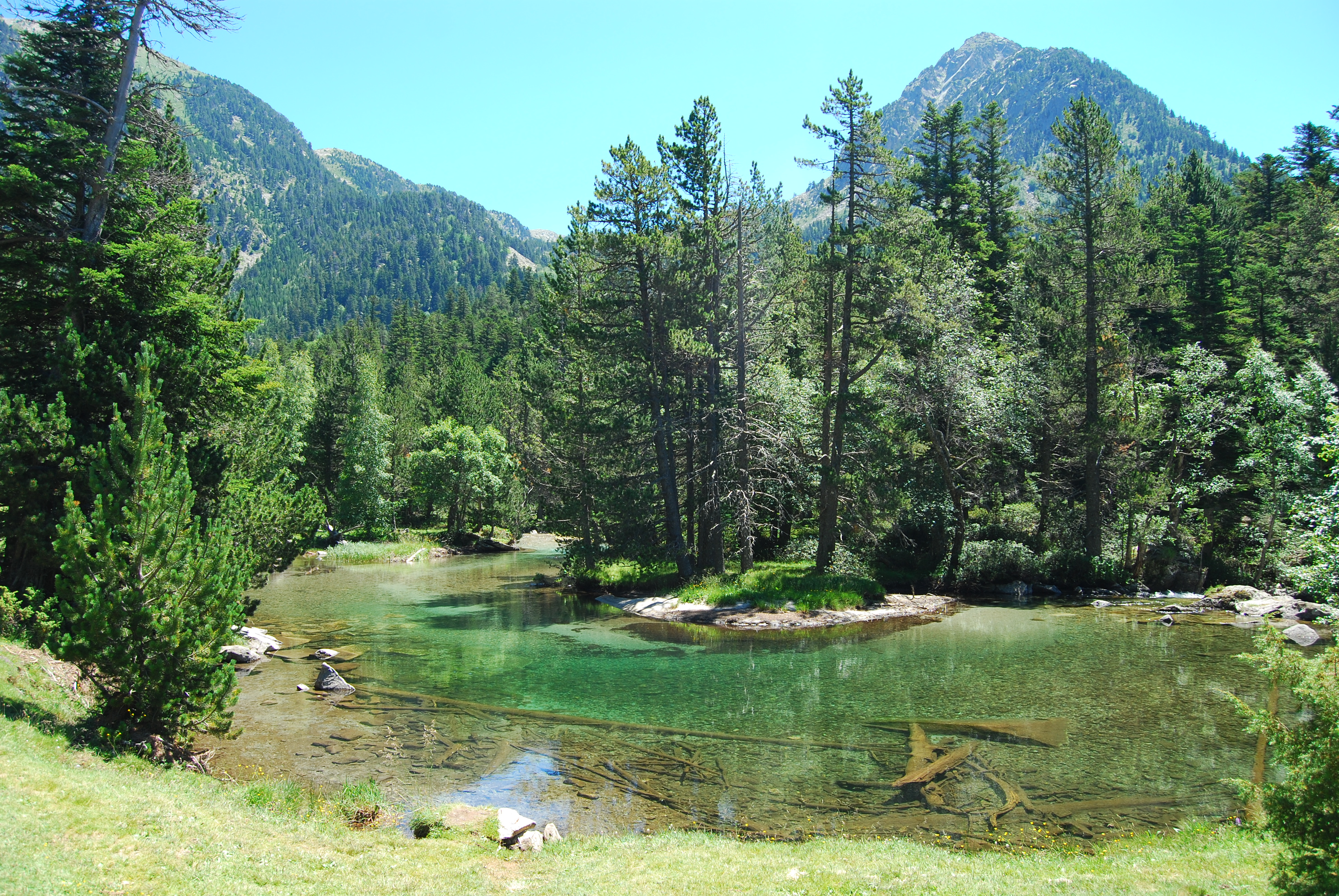 Aigüestortes National Park in Catalonia, Spain.